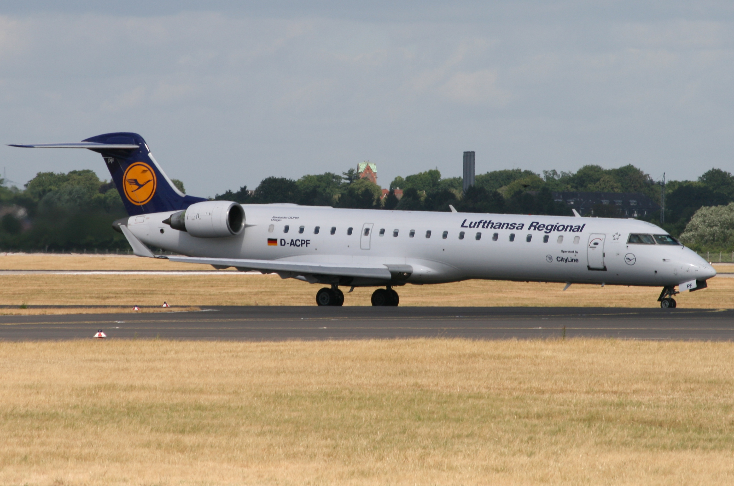 D-ACPF Lufthansa Regional CRJ 700 (c/n 10030)